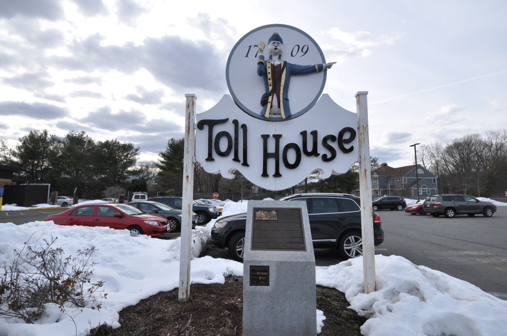 Restored/replicated sign of the Toll House Inn, Whitman, Massachusetts.